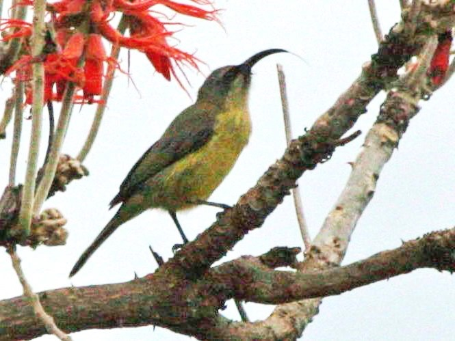 Feale Variable Sunbird (Cinnyris venustus) - Tanzania